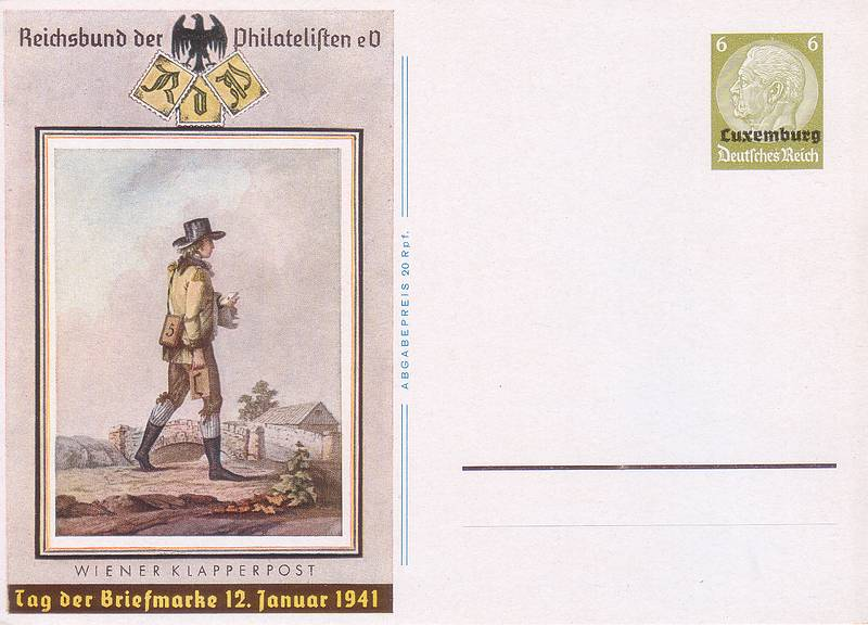 Postcard of the Third Reich, with a preprinted definitive stamp, issued to celebrate the Day of Postage Stamp, January 12, 1941. There is a reproduction of the engraving „Klapperbote“ („Clapper Postman“) by Hieronymus Benedikti (late XVIII c.) on the right side of the postcard, and an overprint for the German occupation of Luxembourg on the German definitive stamp (Michel #P 4).